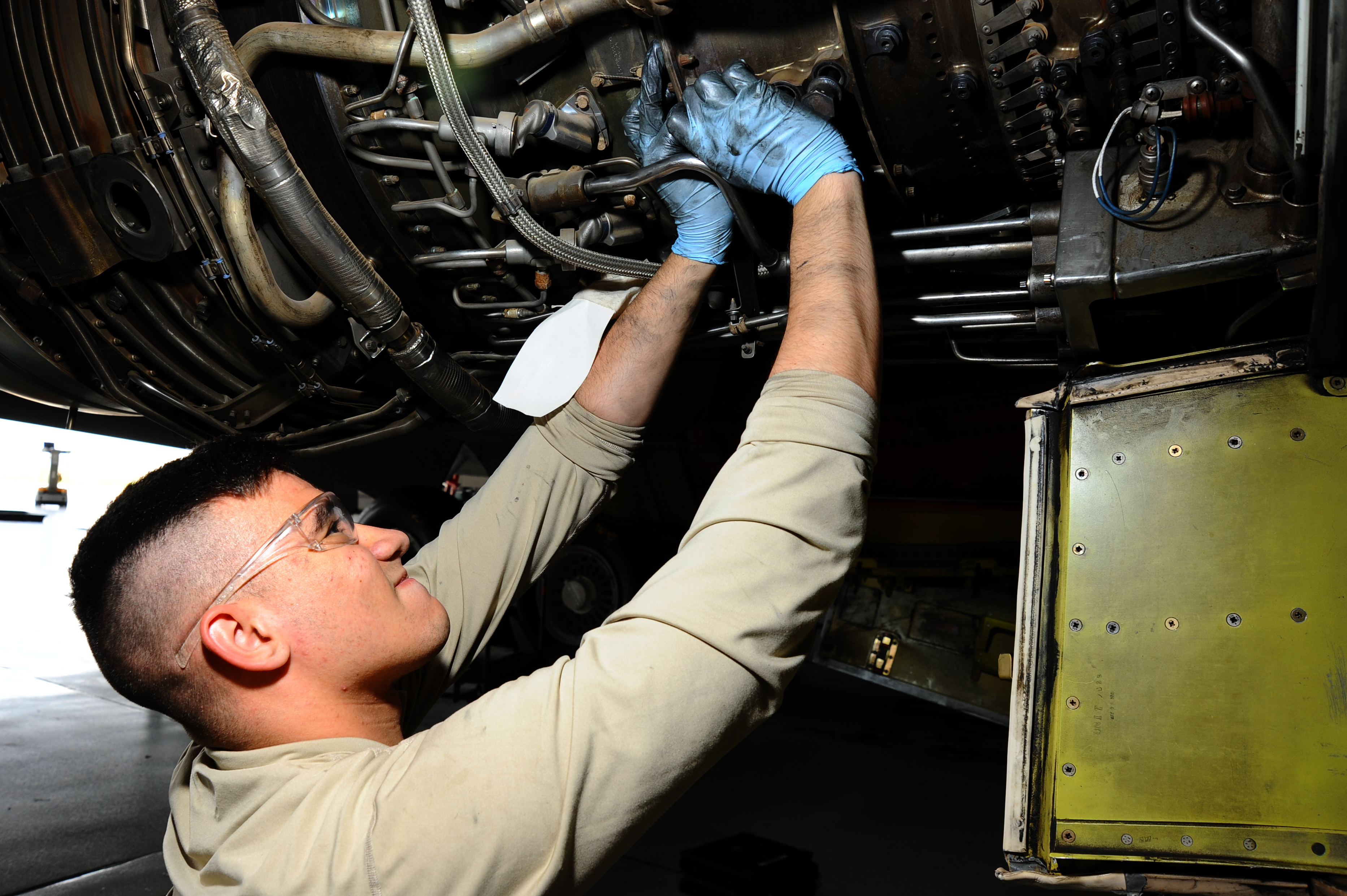 Airman 1st Class Nathan Murphy, 22nd Maintenance Squadron aerospace propulsion journeyman, performs a basic inspection on a KC-135 engine, April 6, 2015, at McConnell Air Force Base, Kan. The 22nd MXS routinely inspect aircraft to ensure parts are in working order for the safety of the aircrew. (U.S. Air Force photo by Airman 1st Class Christopher Thornbury)